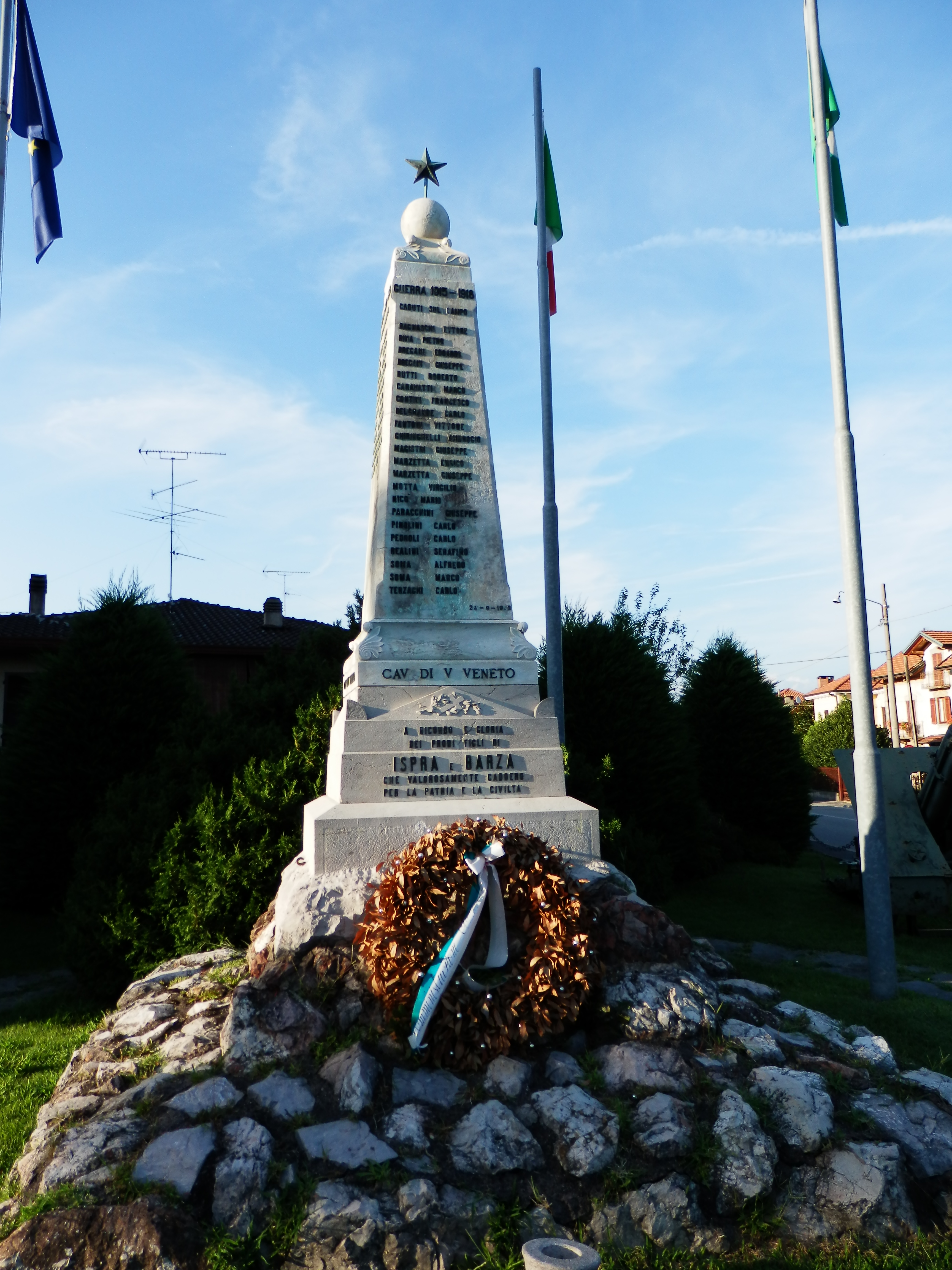 War memorial. via Marconi, Ispra (Varese, Italy)